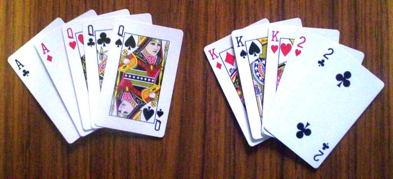 Full house hands in poker I took the photo.